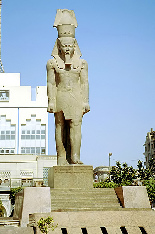 Statue of Ramses II, formerly errected at the Ramsis square (now at the pyramid plateau at Giza)